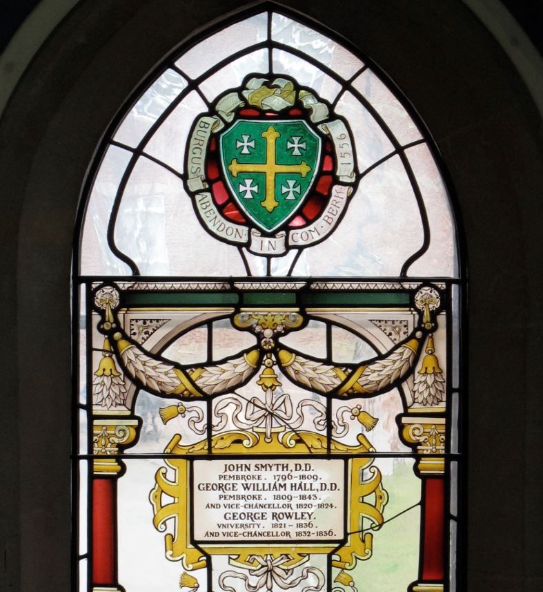 Photograph of Charles Eamer Kempe stained glass in the Grundy Library at Abingdon School.